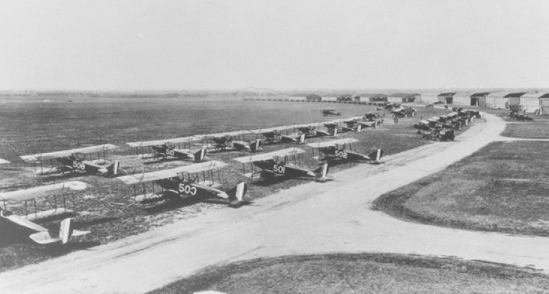 Brooks Field, Texas, was one of 27 flying fields the United States used for training pilots in World War I. Most fields were in the southern states, where flying conditions were generally good all year round.